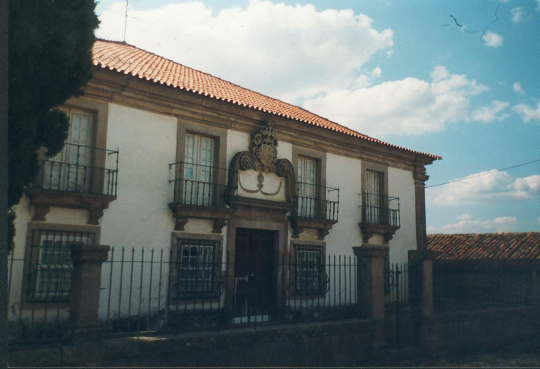 The "Casa Do Adro" in Trevões, Portugal. Part of the portuguese heritage.